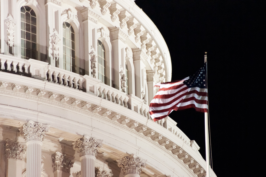 The dome of the United States Capitol at night Washington, D.C., USA